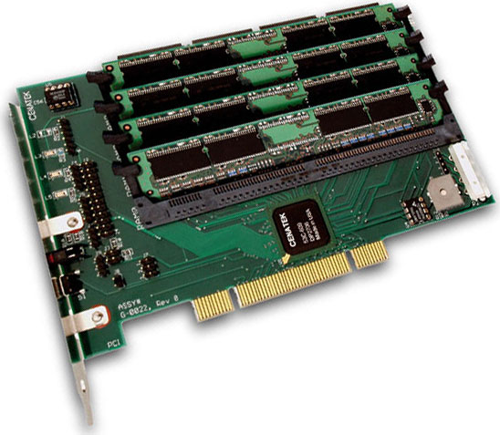 Old RAMDrive